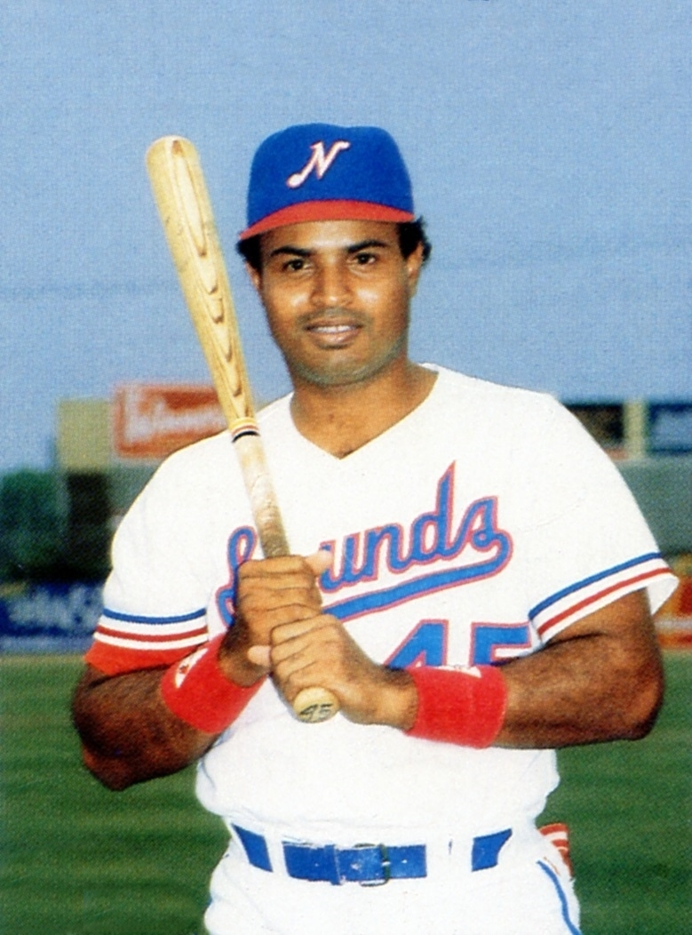 First baseman Eddie Vargas of the 1988 Nashville Sounds Minor League Baseball team of the American Association